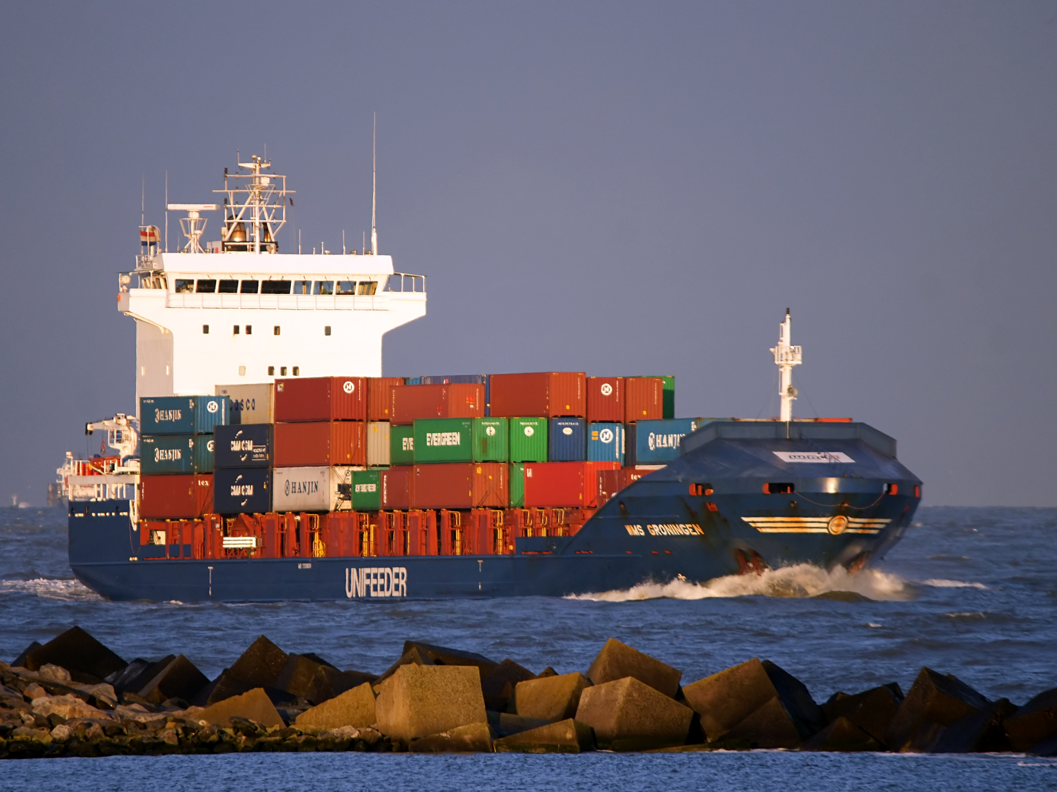 The WMS Groningen at Hoek van Holland near Rotterdam, Netherlands. IMO Number: 9339038 MMSI Number: 209840000 Callsign: C58OR Length: 129 m Beam: 20.6 m